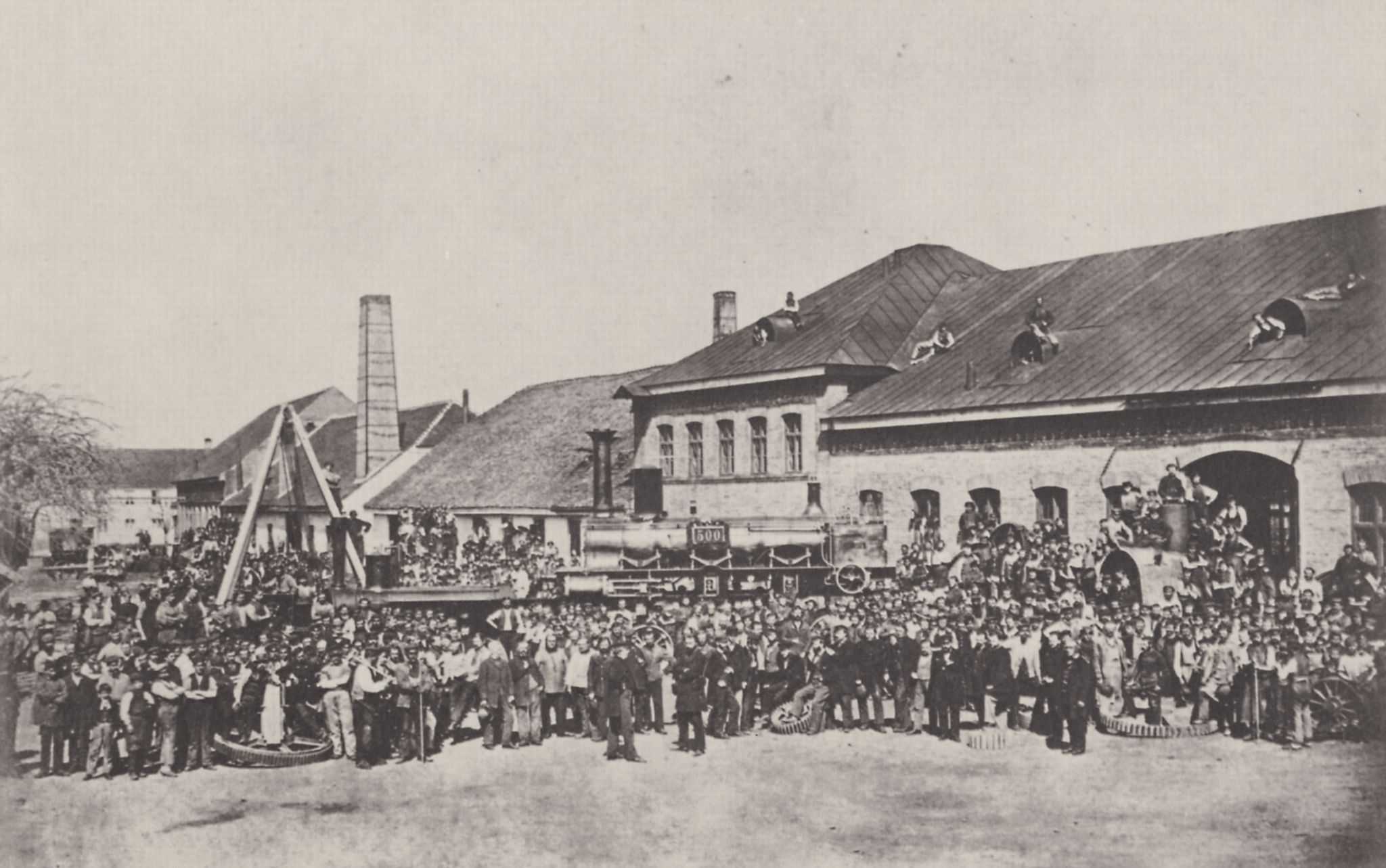 Employees of Maffei Locomotive Manfacturer at Munich celebrate their 500th locomotive.